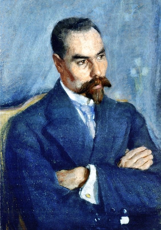 Valéry Brioussov